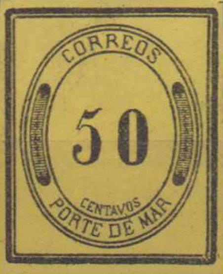 Mexico - porte de mar - 1875 - Type 1 - 50c